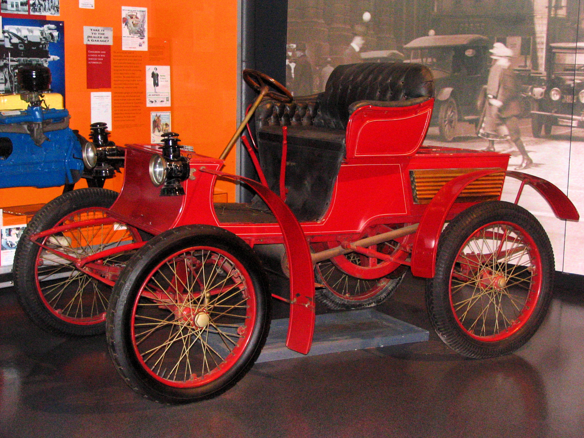 1901 St. Louis from St. Louis Motor Company